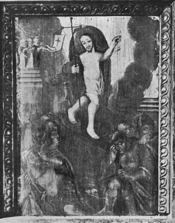 Painting by Hans Rasmussen Haard from former altarpiece at Our Lady's church, Trondheim, Norway.